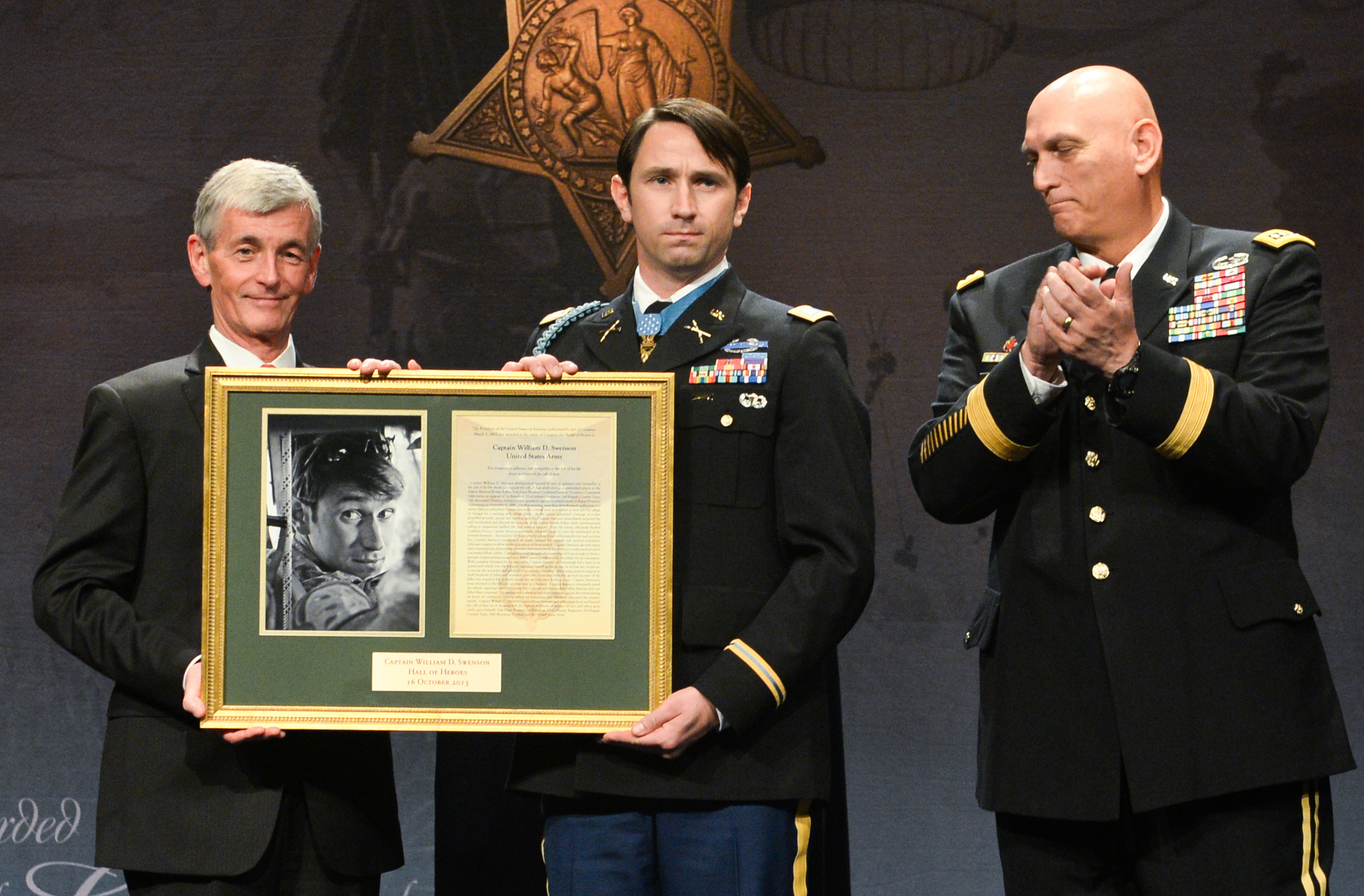 Framed Medal of Honor citation presented to U.S. Army Captain William Swenson on October 16, 2013.